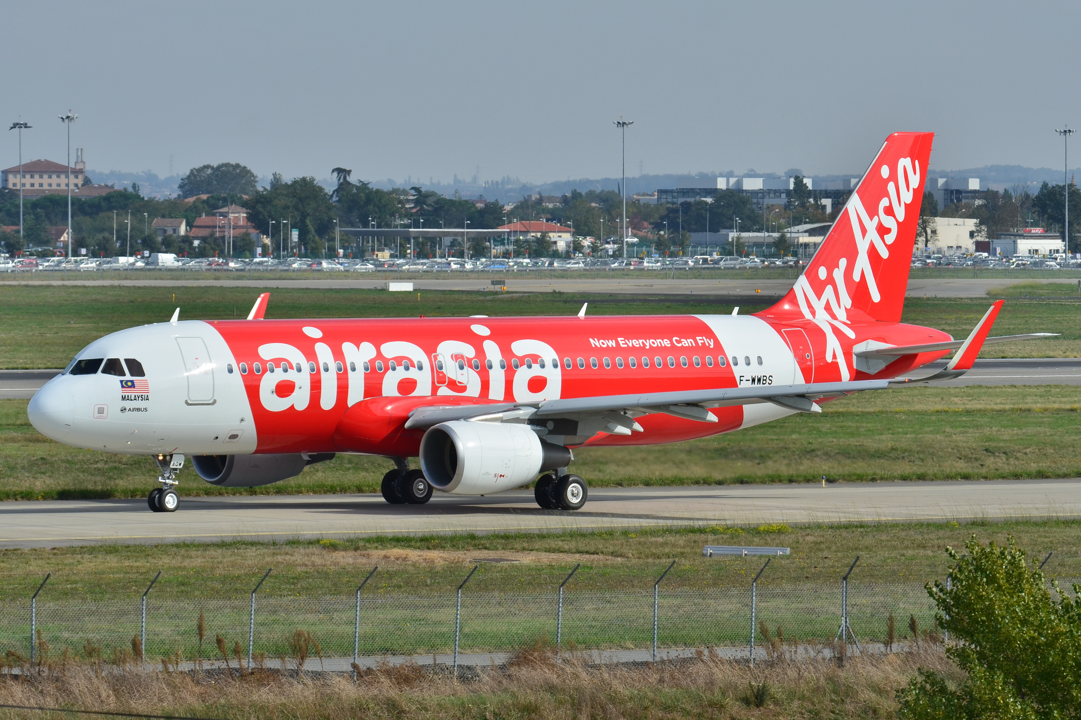 AirAsia Airbus A320 at Toulouse-Blagnac Airport (LFBO) in France.